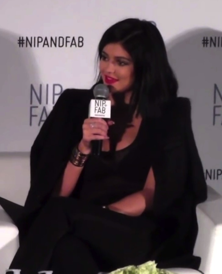 American socialite, model, and reality television personality Kylie Jenner, interviewed for "Nip and Fab" skin and body care.